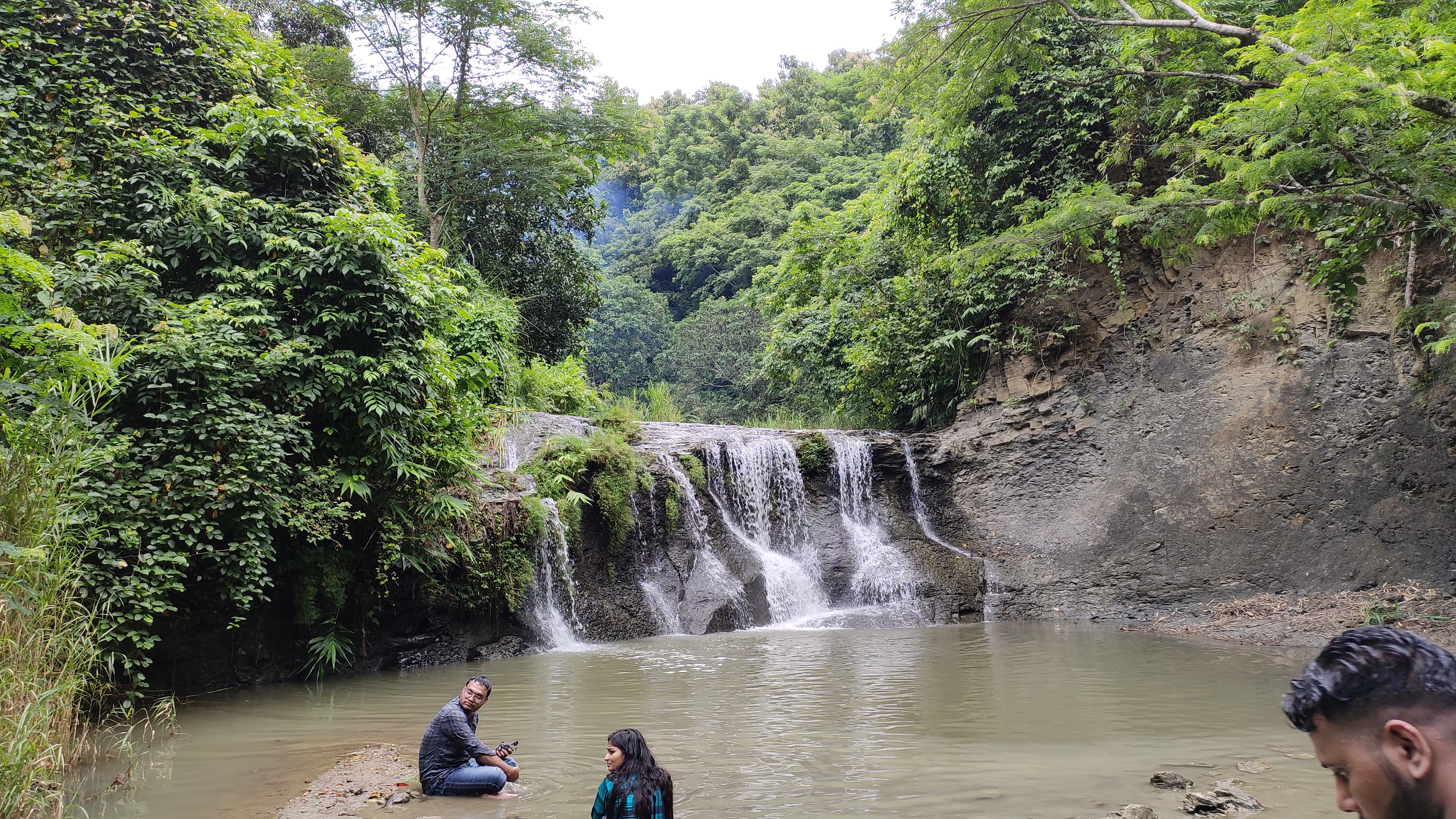 এই ছবিটি সীতাকুন্ডের ঝরঝরি ঝর্ণার ছবি।